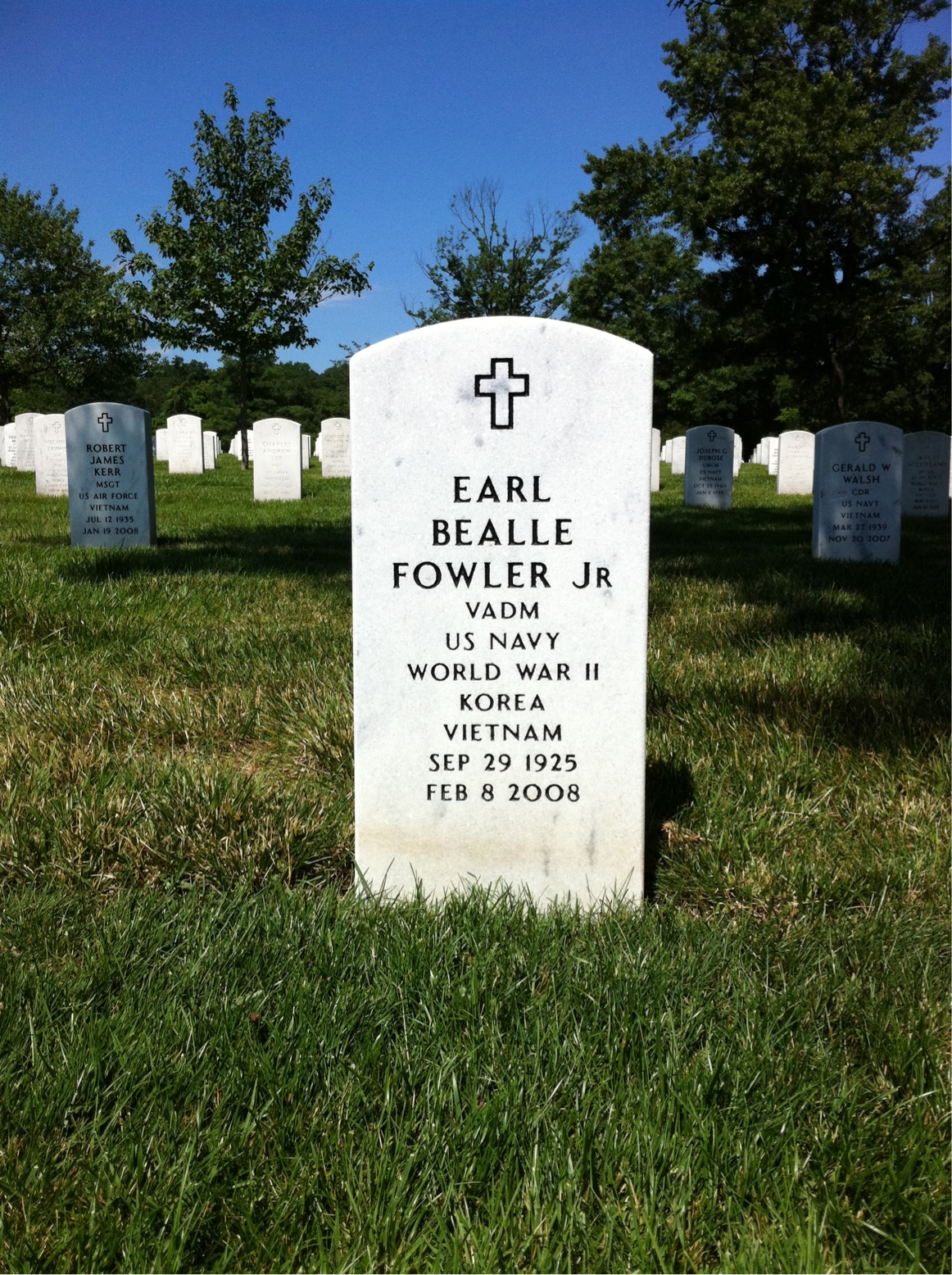 Grave of Earl B. Fowler Jr. at Arlington National Cemetery